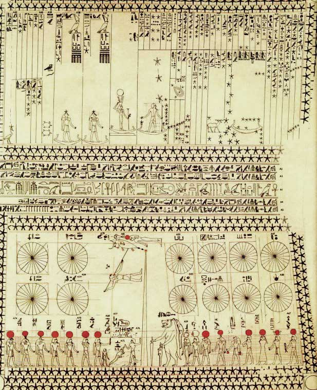 The double wall mural of the tomb of Senenmut.